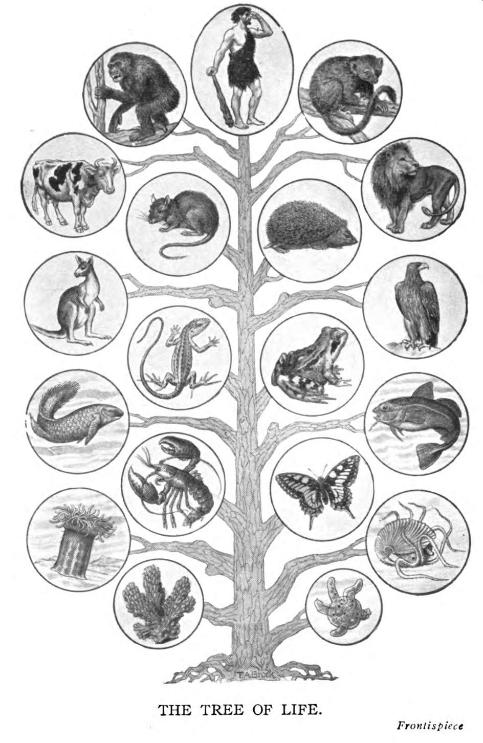 Frontispiece for "The wonder world we live in" (1917) by Adam Gowans Whyte. (Published as "Wonder Stories for Boys and Girls" in the UK)